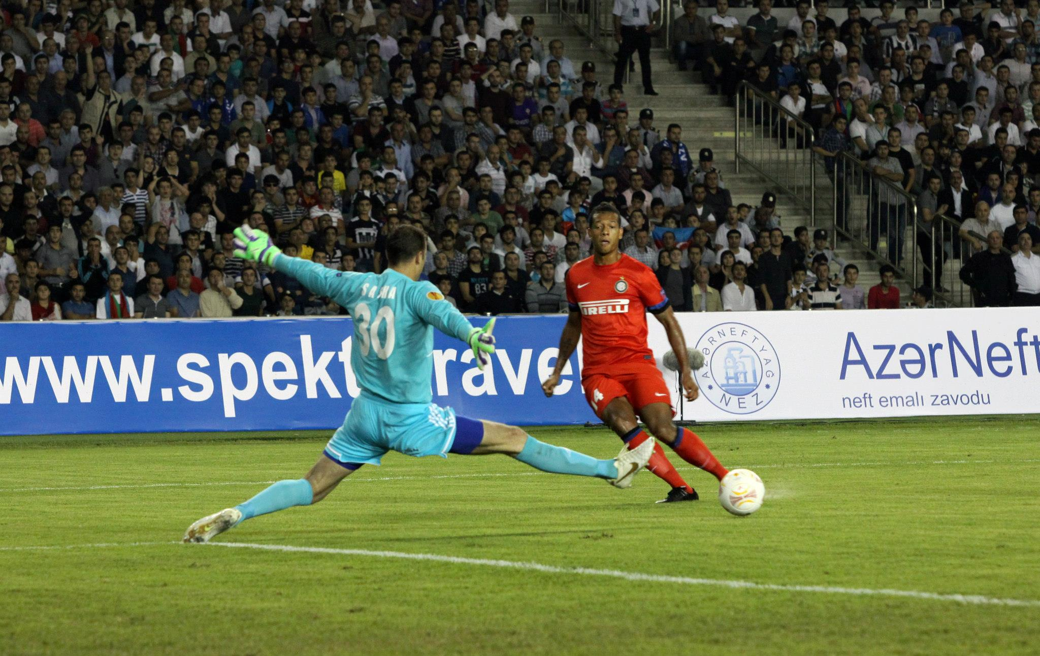 UEFA Europa League 2012-10-04 Neftchi Baku-FC Internazionale Milano.